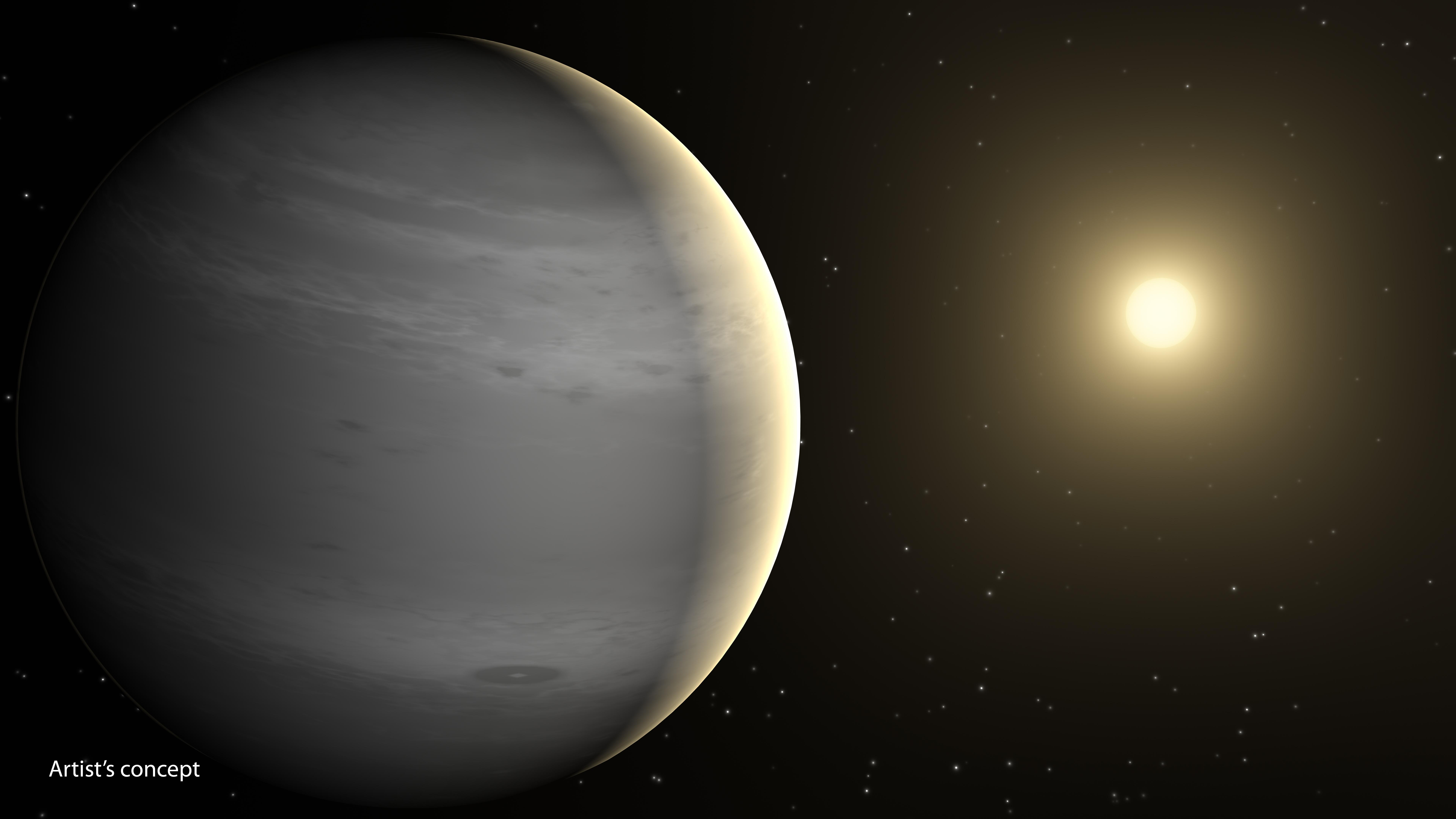 PIA19344: Helium-Shrouded Planets (Artist's Concept) Planets having atmospheres rich in helium may be common in our galaxy, according to a new theory based on data from NASA's Spitzer Space Telescope. These planets would be around the mass of Neptune, or lighter, and would orbit close to their stars, basking in their searing heat. According to the new theory, radiation from the stars would boil off hydrogen in the planets' atmospheres. Both hydrogen and helium are common ingredients of gas planets like these. Hydrogen is lighter than helium and thus more likely to escape. After billions of years of losing hydrogen, the planet's atmosphere would become enriched with helium. Scientists predict the planets would appear covered in white or gray clouds. This is in contrast to our own Neptune, which is blue due to the presence of methane. Methane absorbs the color red, leaving blue. Neptune is far from our sun and hasn't lost its hydrogen. The hydrogen bonds with carbon to form methane. This artist's concept depicts a proposed helium-atmosphere planet called GJ 436b, which was found by Spitzer to lack in methane -- a first clue about its lack of hydrogen. The planet orbits every 2.6 days around its star, which is cooler than our sun and thus appears more yellow-orange in color. NASA's Jet Propulsion Laboratory, Pasadena, California, manages the Spitzer Space Telescope mission for NASA's Science Mission Directorate, Washington. Science operations are conducted at the Spitzer Science Center at the California Institute of Technology in Pasadena. Spacecraft operations are based at Lockheed Martin Space Systems Company, Littleton, Colorado. Data are archived at the Infrared Science Archive housed at the Infrared Processing and Analysis Center at Caltech. Caltech manages JPL for NASA. For more information about Spitzer, visit and